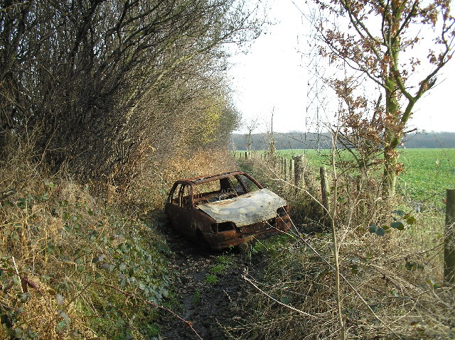 Dellsome Lane, Hatfield. Dellsome Lane used to run from the centre of Welham Green to Colney Heath. It was bisected by the building of the A1(M). A small part survives in Colney Heath and a larger part in Welham Green. From just north of its junction with Parsonage Lane in Welham Green, it is blocked off from traffic. It is still however tarmaced right up to the fence at the A1(M), although very narrow and overgrown. Photographed looking eastward, with the A1(M) about 50 yards behind me. Although not condoning car theft, it must have been an extraordinary bit of driving to get a car this far down the lane.